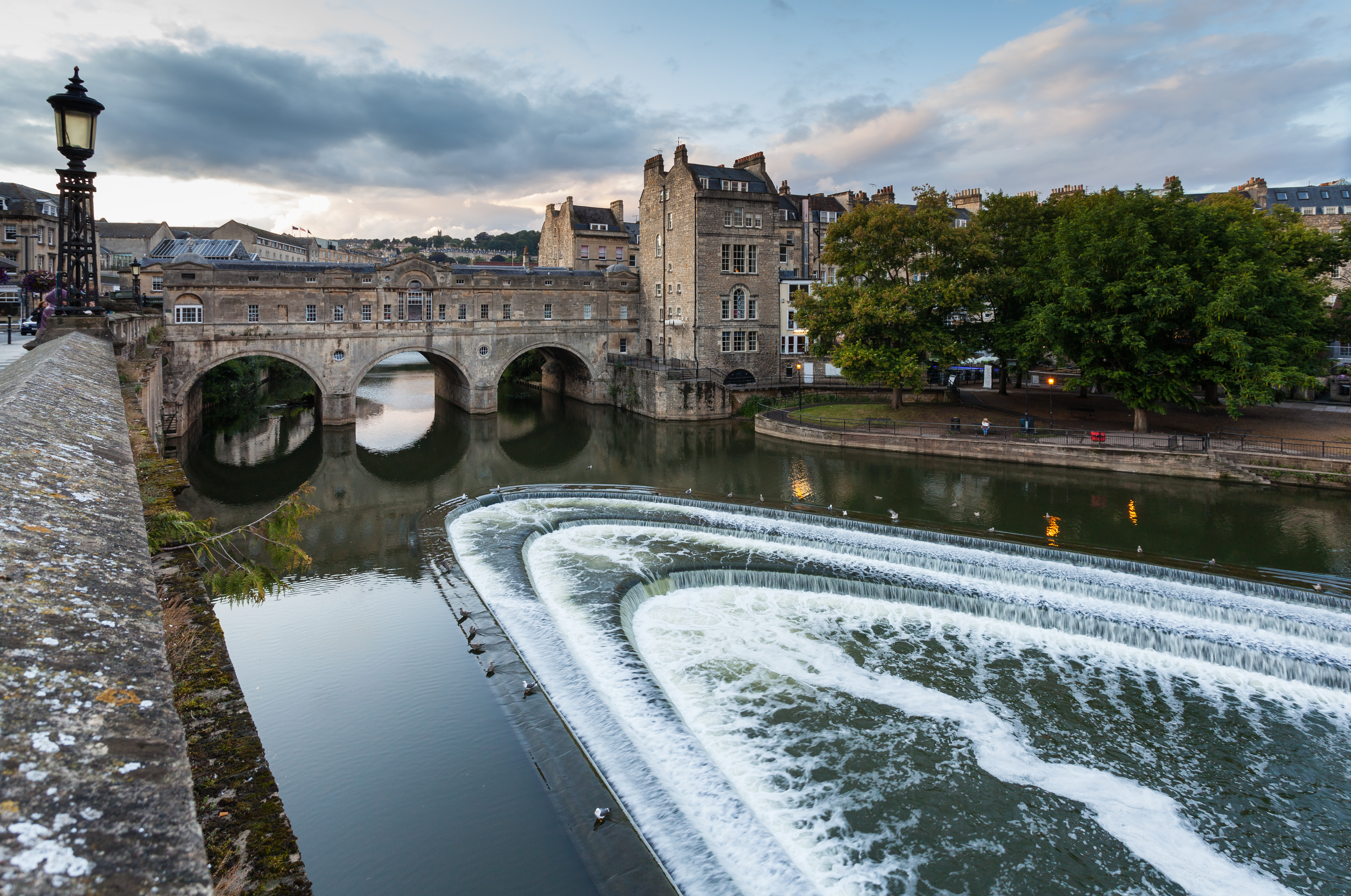 Pulteney Bridge, Bath, England.